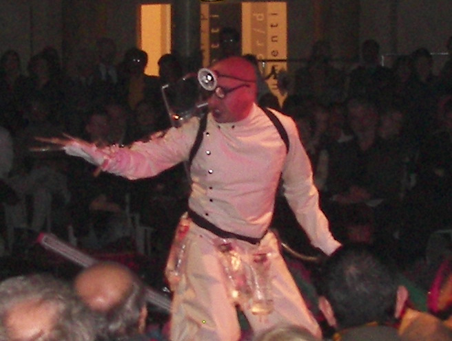 The quarantine inspector - A Dream Play of Johan August Strindberg - Accademia di Costume e di Moda - Final Work of costume Rome 3 may 2010 - Acquario Romano - Direction of Matteo Tarasco - Interpreter Daniele Sirotti - Costume of Sara Mirabella